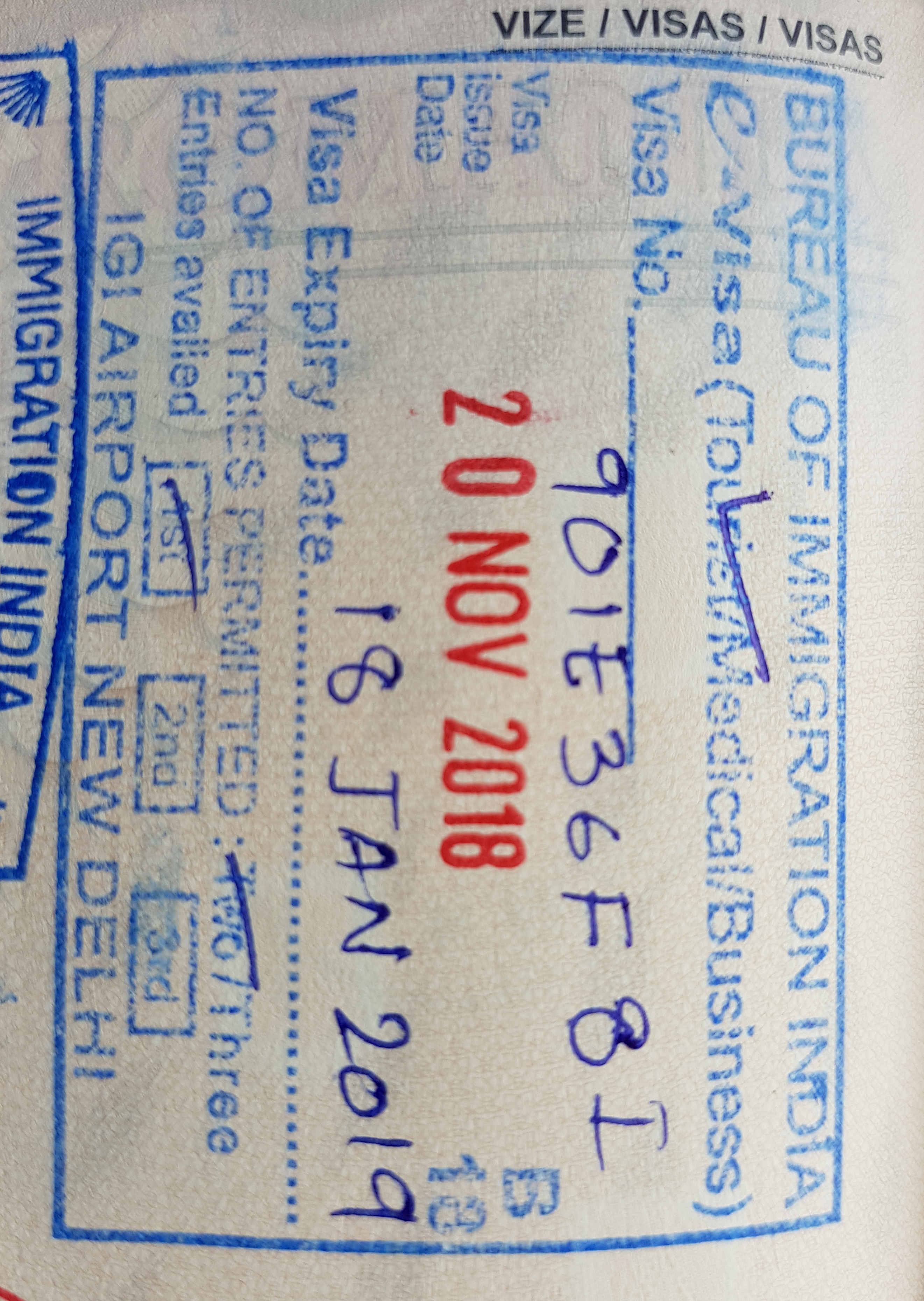 Indian e-Visa